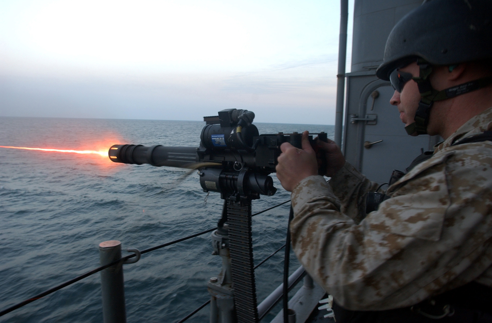 040201-N-0331L-013 Arabian Gulf (Feb 1, 2004) – Cpl. Ryan Lentz assigned to the 1st Fleet Anti-terrorism Security Team (FAST) 6th Platoon, fires a GAUSE-17/A gatling gun during training exercises [onboard the] USS Philippine Sea (CG-58). The guided missile cruiser Philippine Sea and 1st FAST 6th Platoon are forward deployed to the Arabian Gulf in support of Operations Iraqi Freedom and Operation Enduring Freedom.